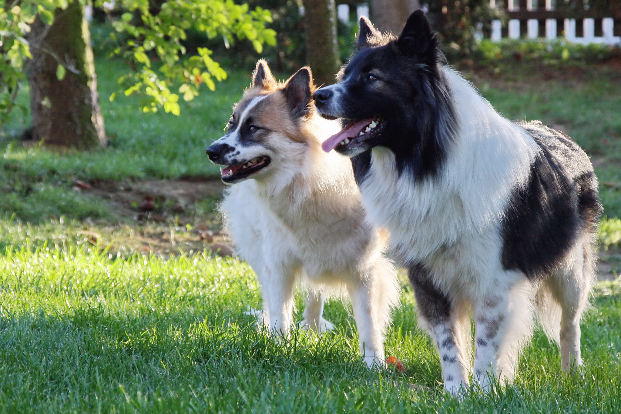 Two smooth-coated Elo dogs